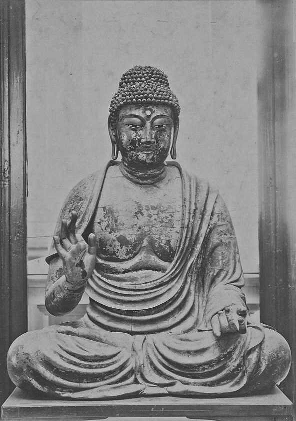 Yakushi Nyorai, Kozanji, Kyoto, kept at Kyoto National Museum